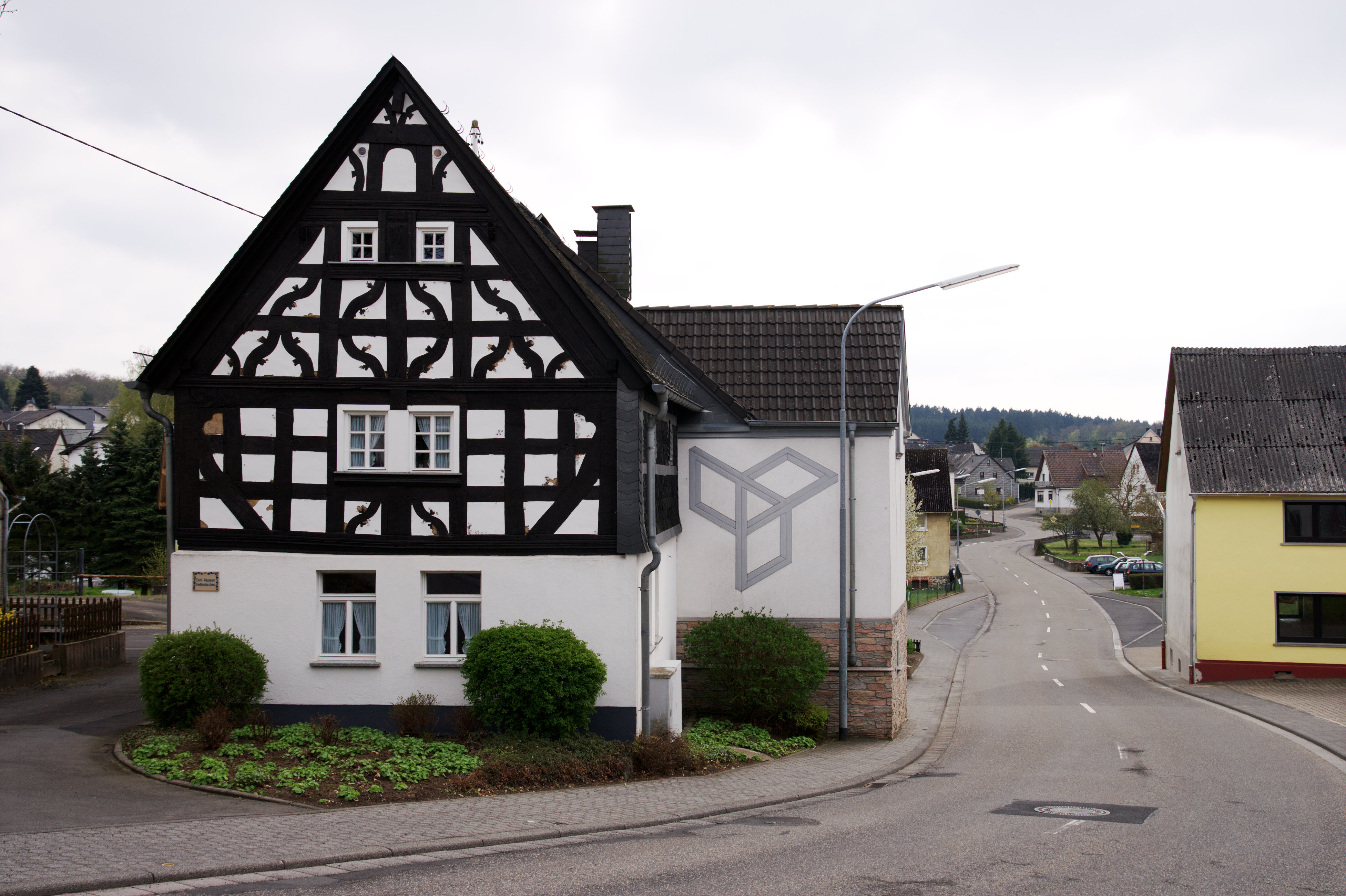 Village Helferskirchen, Westerwald, Germany. half-timbered house with village museum